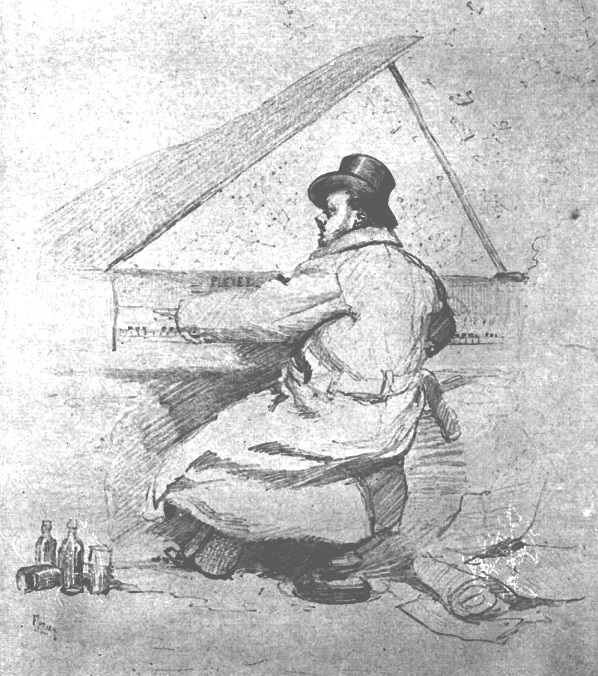 Sketch of Emmanuel Chabrier